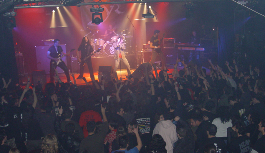 TYR, live in Granada